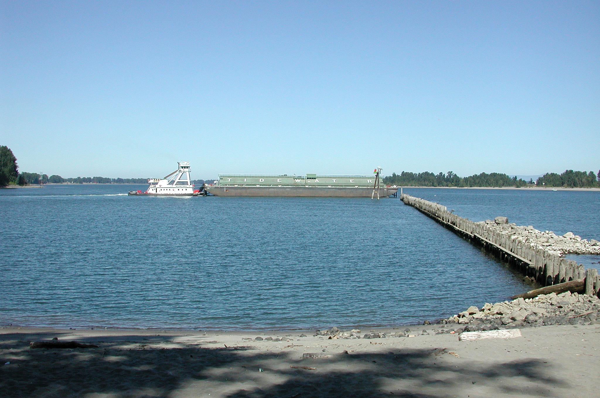 A tugboat pushes a barge from the Willamette River into the Columbia River. It is heading upstream (east) on the Columbia. Photo taken from Kelley Point Park in Portland, Oregon, in the United States.